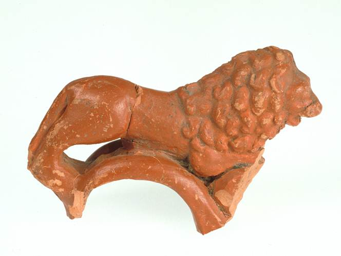 Locally produced lid with an appliqué snake with a cockscomb on its head, an incised wine-crater, and an appliqué lion’s head with the face of a man (Tienen mithraeum)